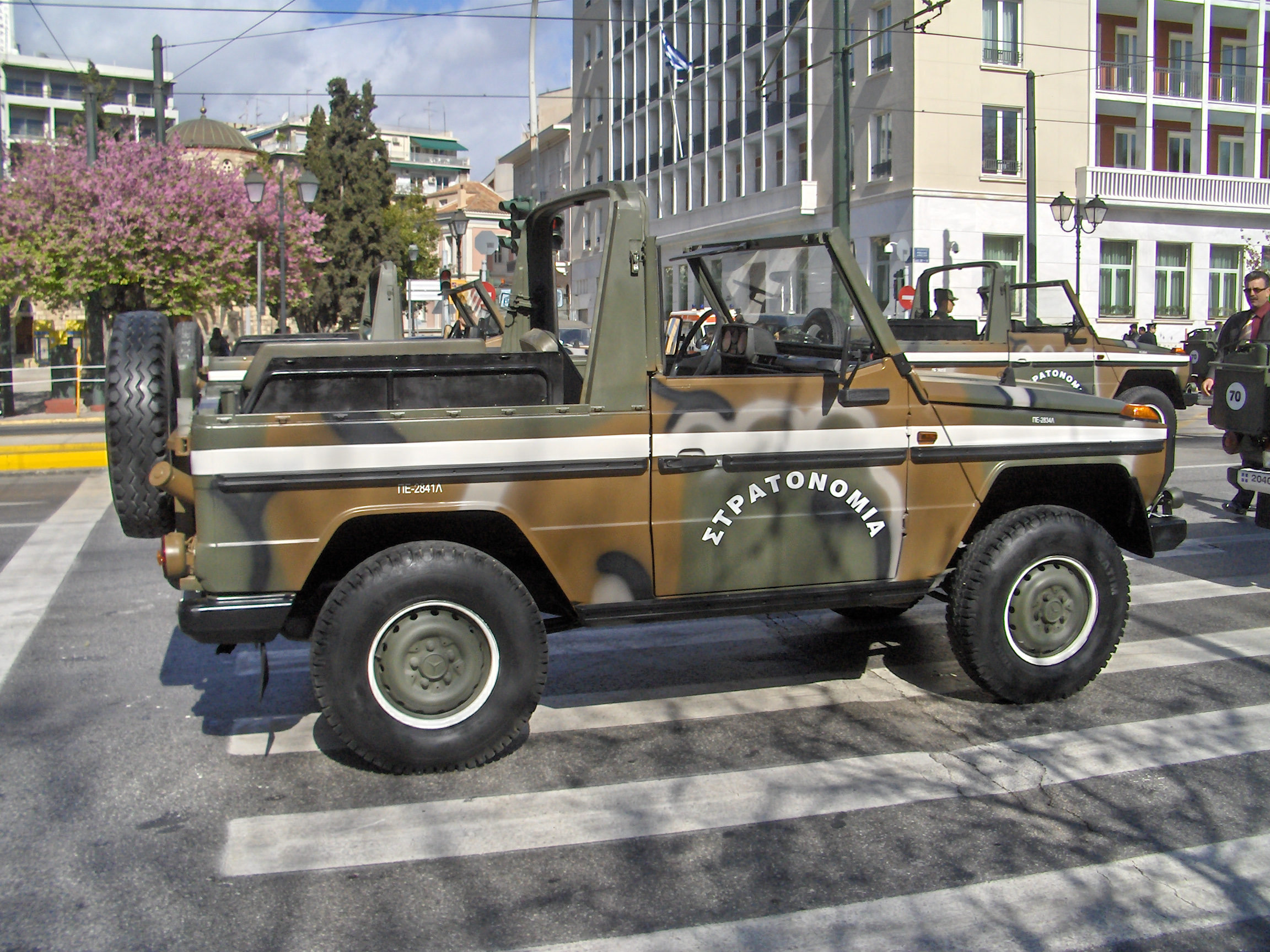 Hellenic Army armoured vehicle (ELBO-built 240GD) at the parade in Athens.